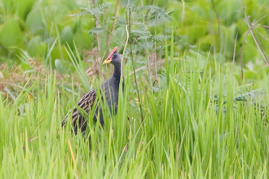 Watercock a resident bird of the philippines found near water. Taken at Candaba, Pampanga Philippines